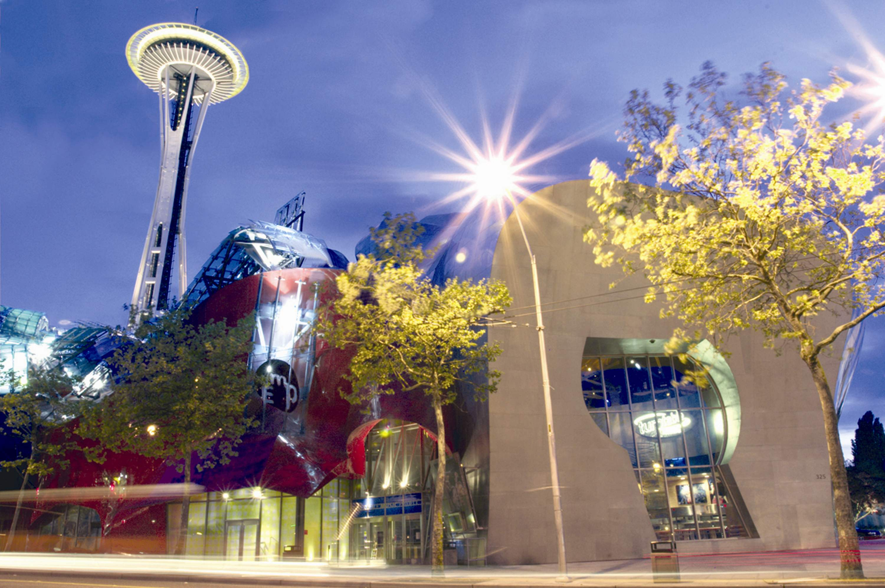 SFM